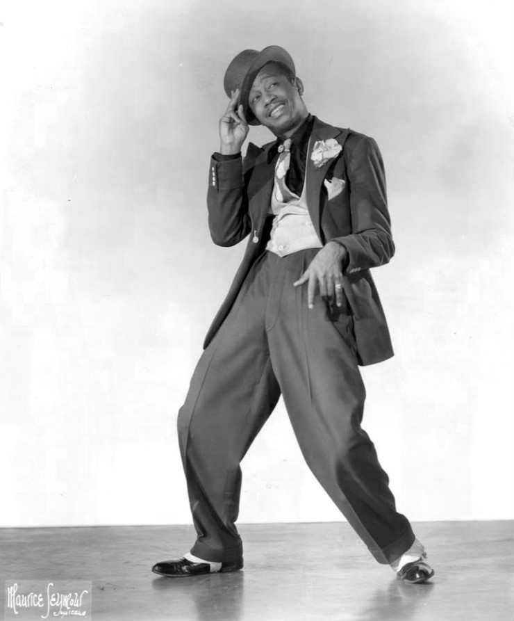 Publicity photo of Avon Long.